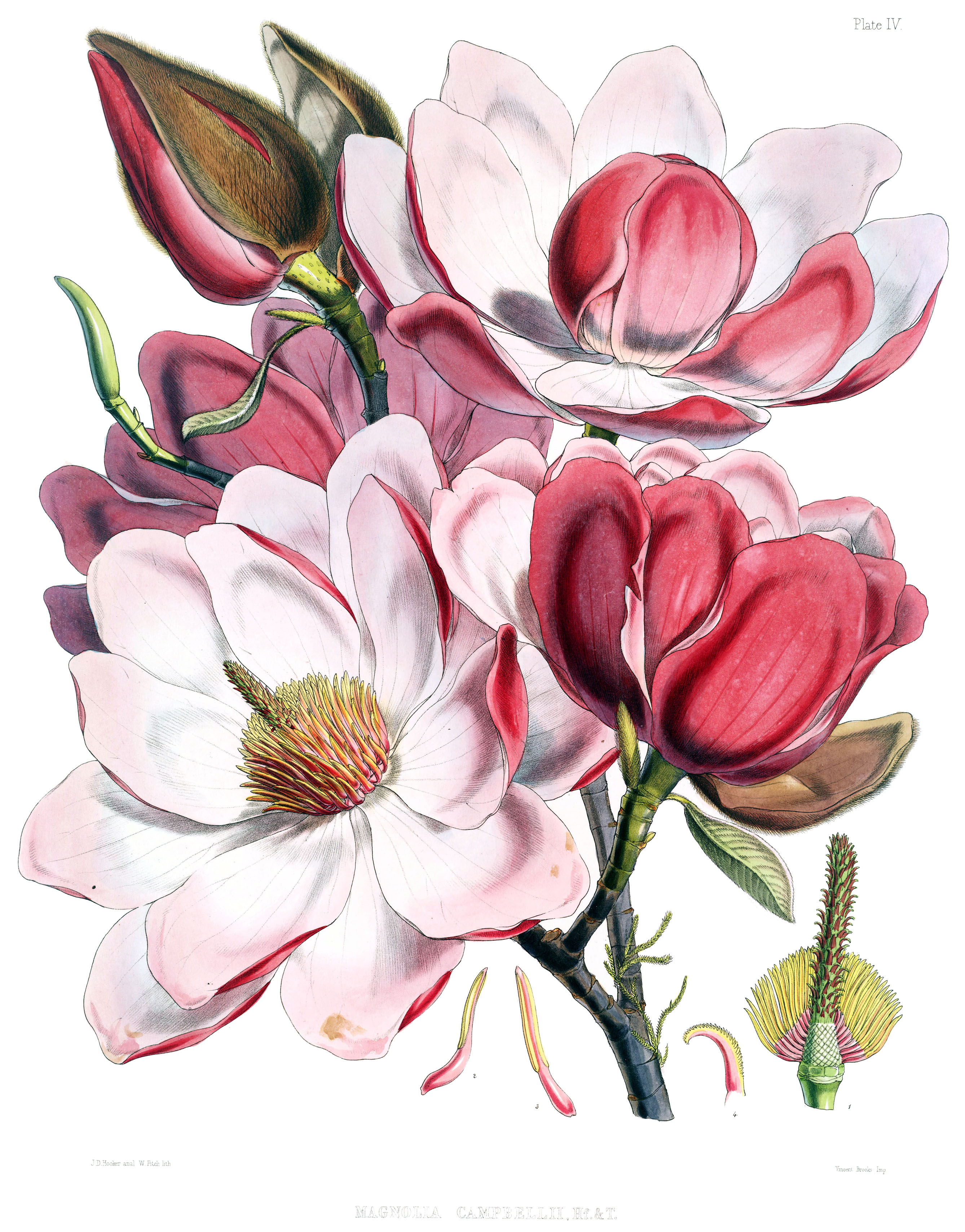 Magnolia campbellii flowers. Original caption: "Plate IV. Flowering specimen of Magnolia Campbellii. Fig. 1. Flower with the perianth removed, showing the stamens and spike of ovaries. 2. Stamens. 3. Stigma :—magnified.